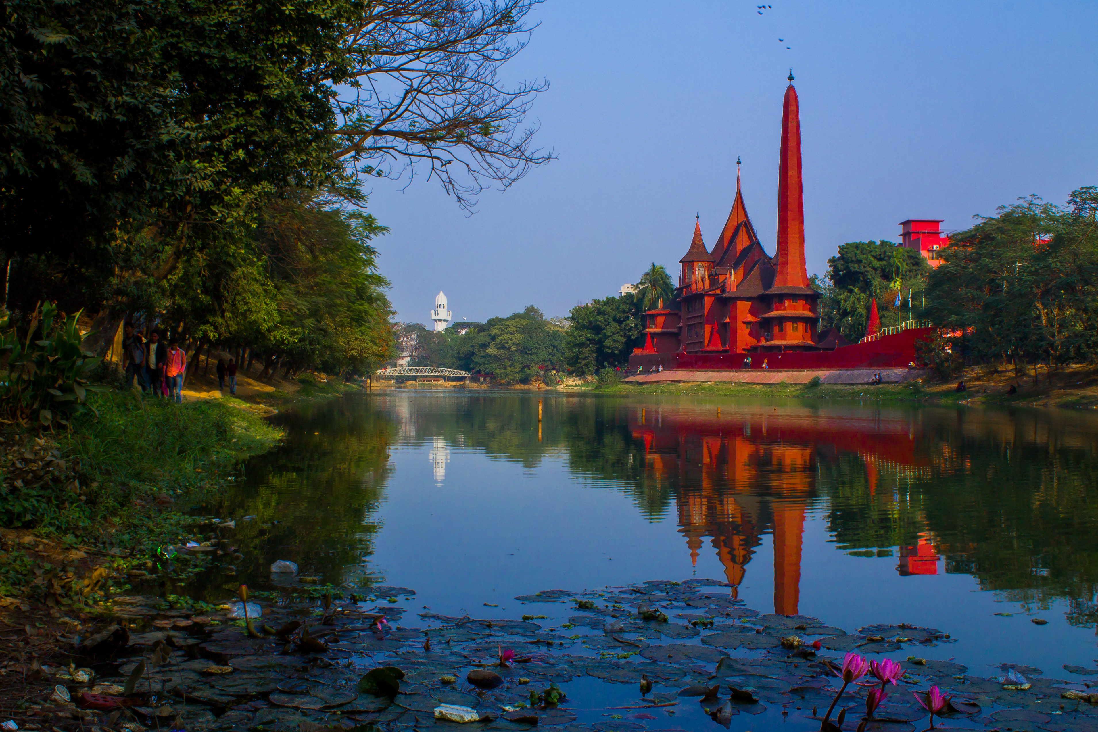 Dhanmondi Lake, Dhaka, Bangladesh